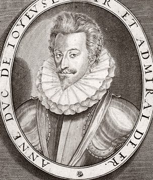 A 16th-century portrait of Anne de Joyeuse (1561-87).